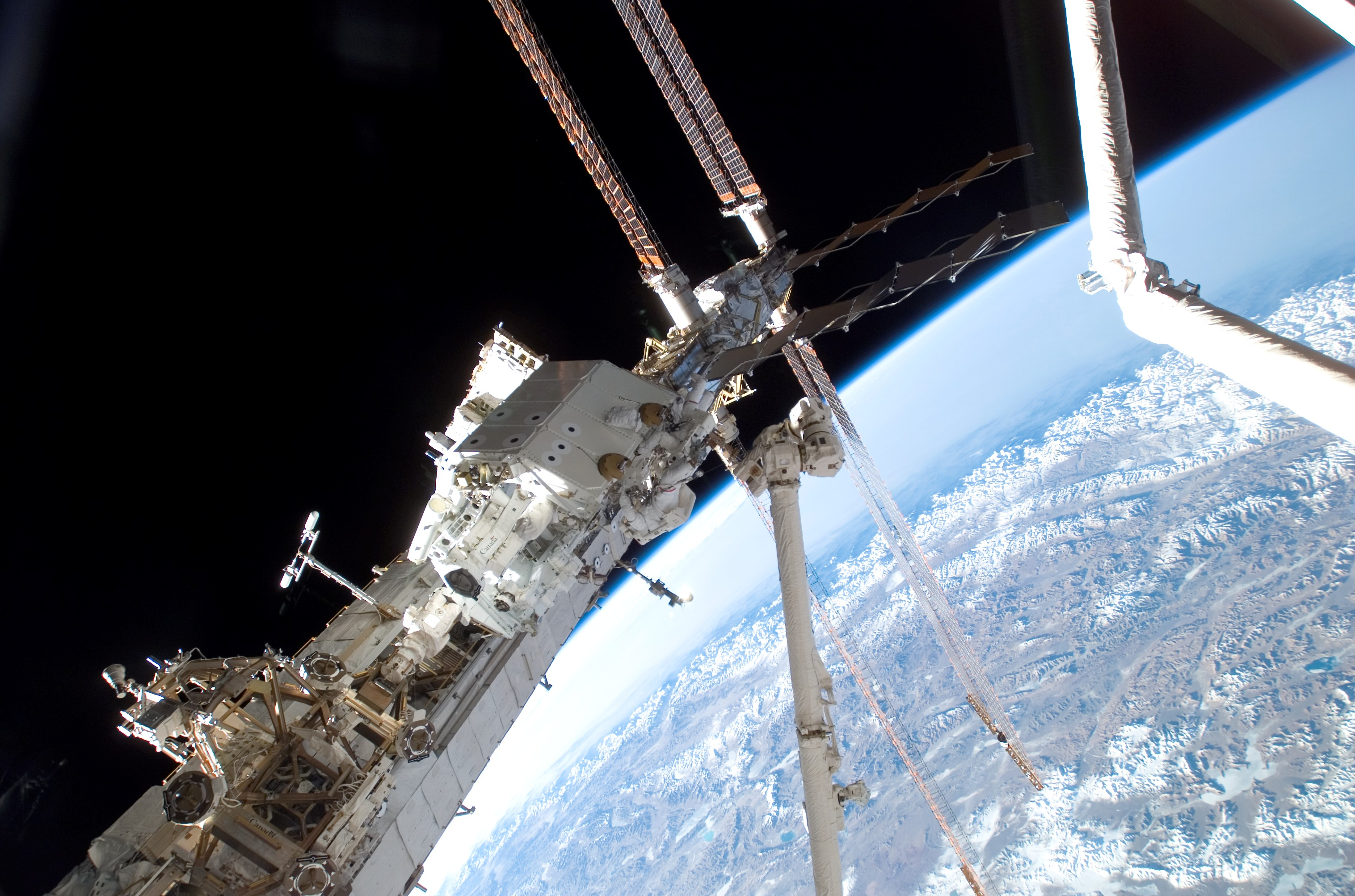 Astronauts Rick Linnehan and Mike Foreman, both STS-123 mission specialists, participate in the mission's second scheduled session of extravehicular activity (EVA) as construction and maintenance continue on the International Space Station. During the 7-hour, 8-minute spacewalk, Linnehan and Foreman, assembled the stick-figure-shaped Dextre, also known as the Special Purpose Dextrous Manipulator (SPDM), a task that included attaching its two arms. Designed for station maintenance and service, Dextre is capable of sensing forces and movement of objects it is manipulating. It can automatically compensate for those forces and movements to ensure an object is moved smoothly. Dextre is the final element of the station's Mobile Servicing System. The blackness of space and Earth's horizon provide the backdrop for the scene.